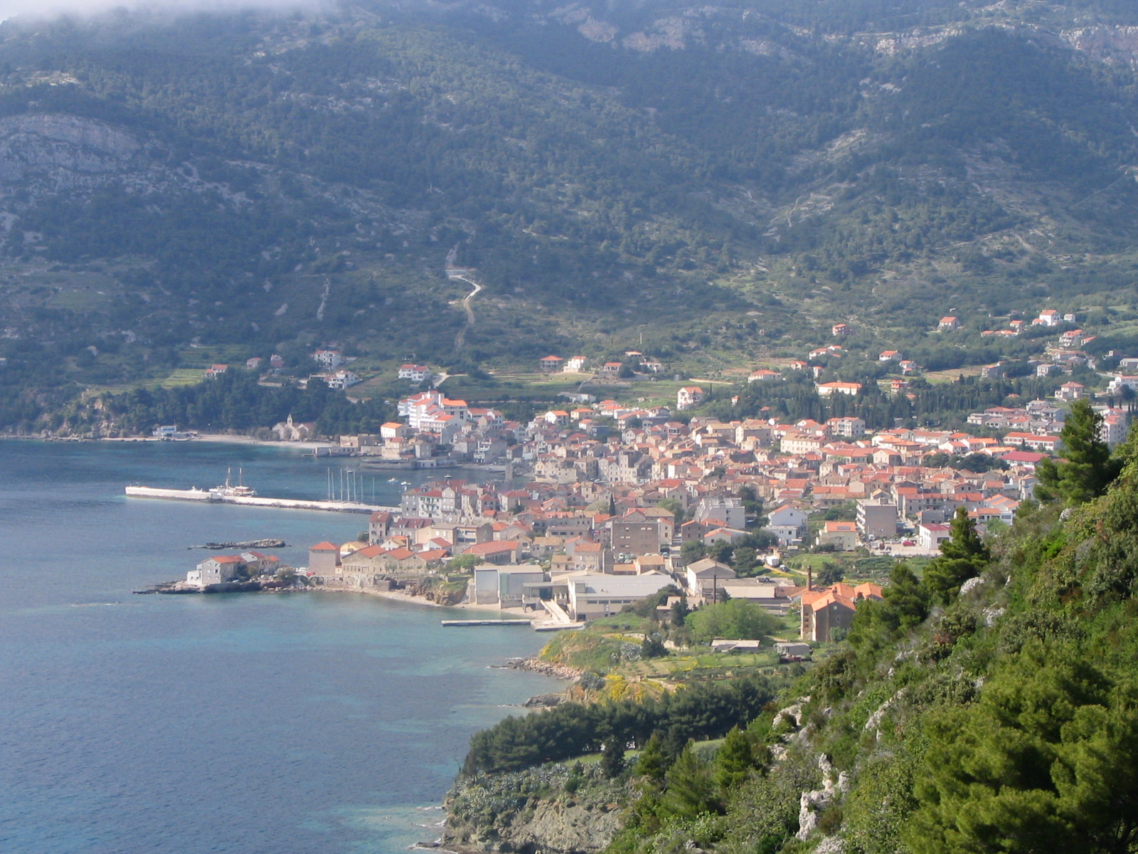 City of Komiza (Croatia). Own photo.